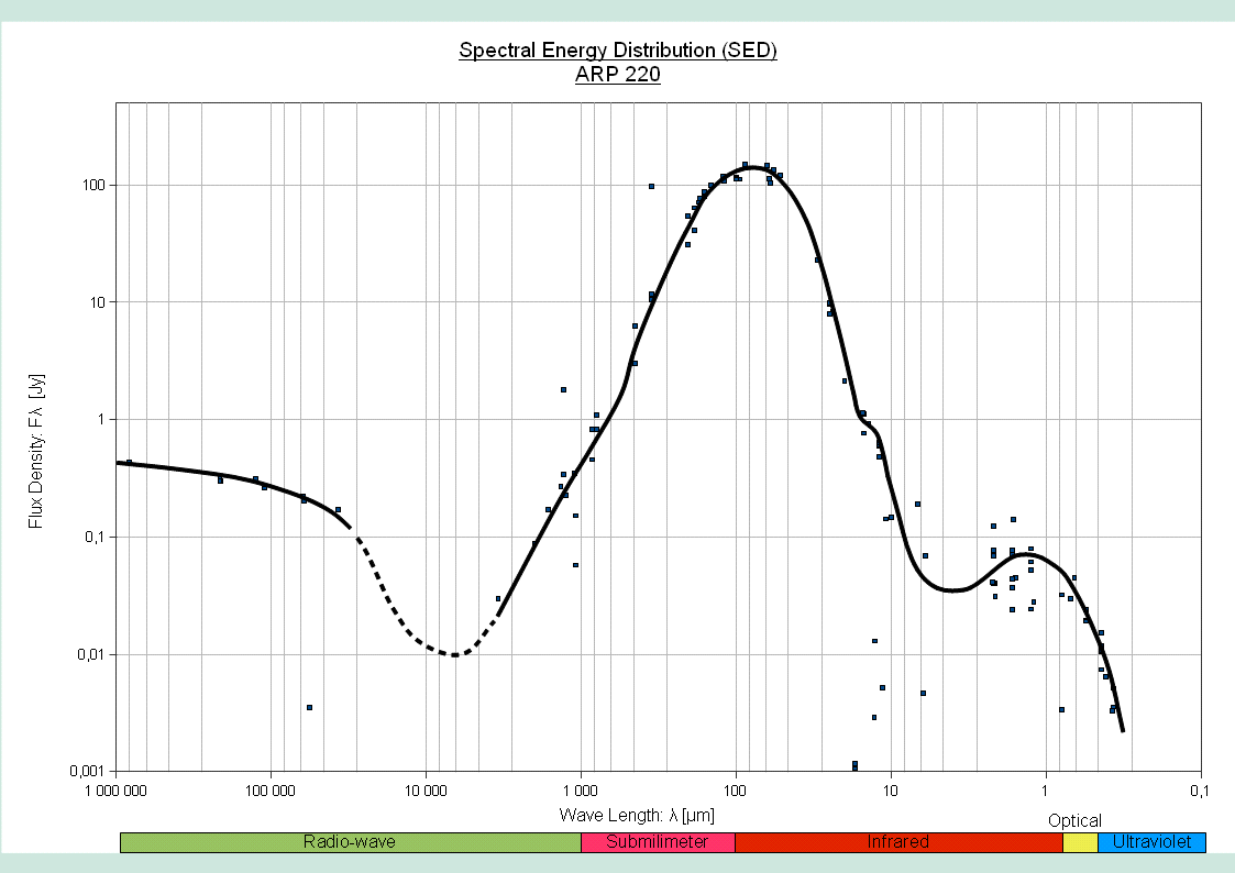 Own work based on NED (GOALS) data. This work has made use of the NASA/IPAC Extragalactic Database (NED ) which is operated by the Jet Propulsion Laboratory, California Institute of Technology, under contract with the National Aeronautics and Space Administration.